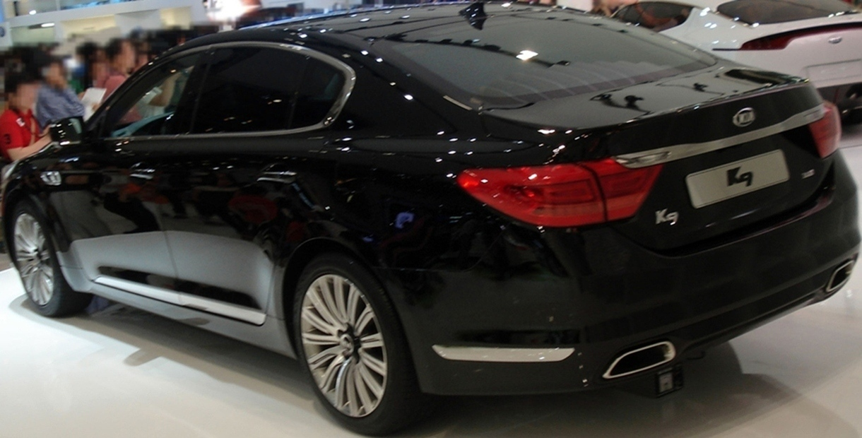 Kia K9